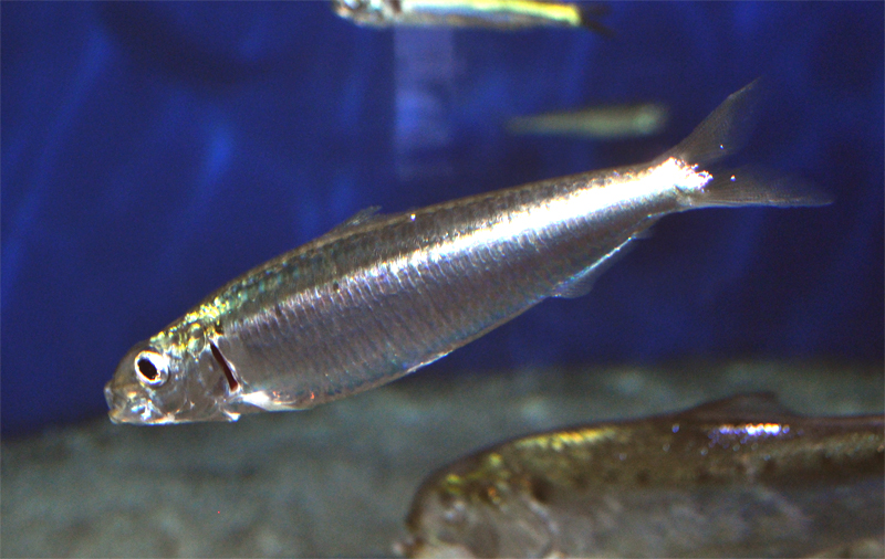 Sardina pilchardus in captivity